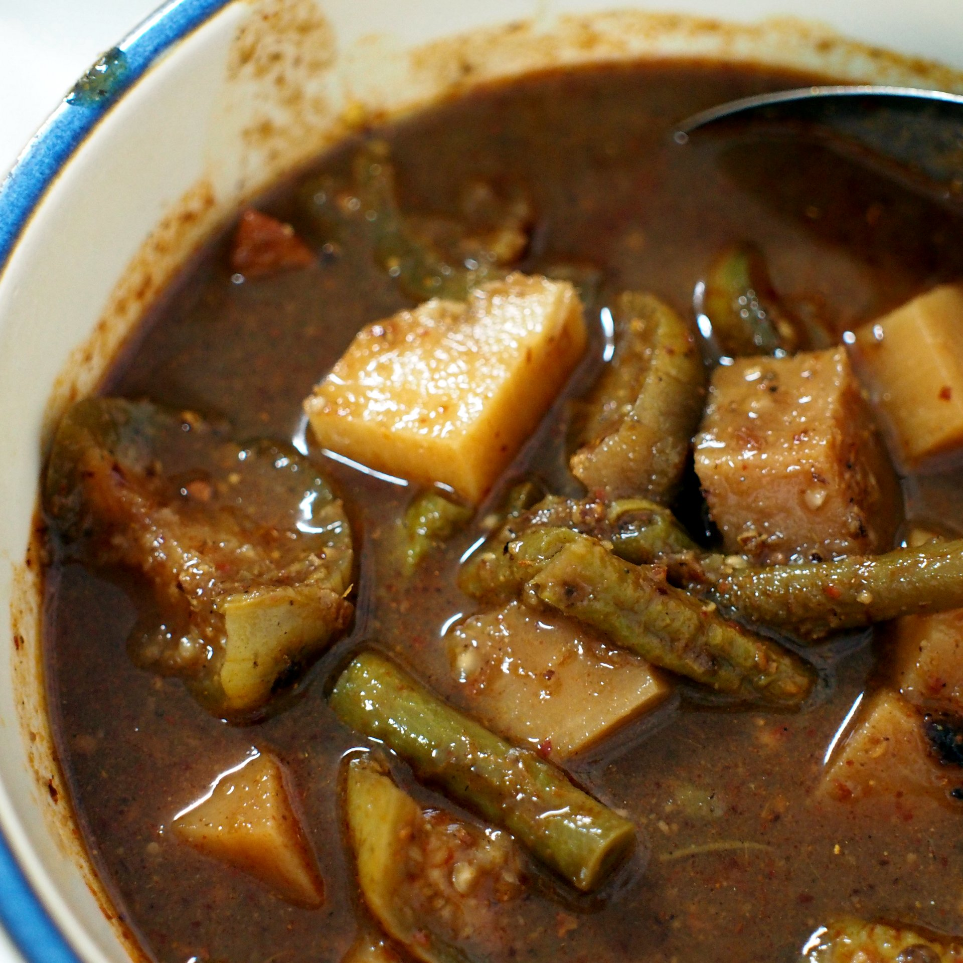 Kaeng tai pla' (Thai script: แกงไตปลา) is a southern Thai curry where the sauce is made from fermented fish intestines. This particular version contains bamboo shoots, yardlong beans, and Thai aubergine/eggplant.